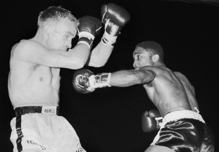 World Boxing Association World featherweight title match Olli Mäki (left) vs. Davey Moore in Helsinki Olympic Stadium, 17 August 1962.